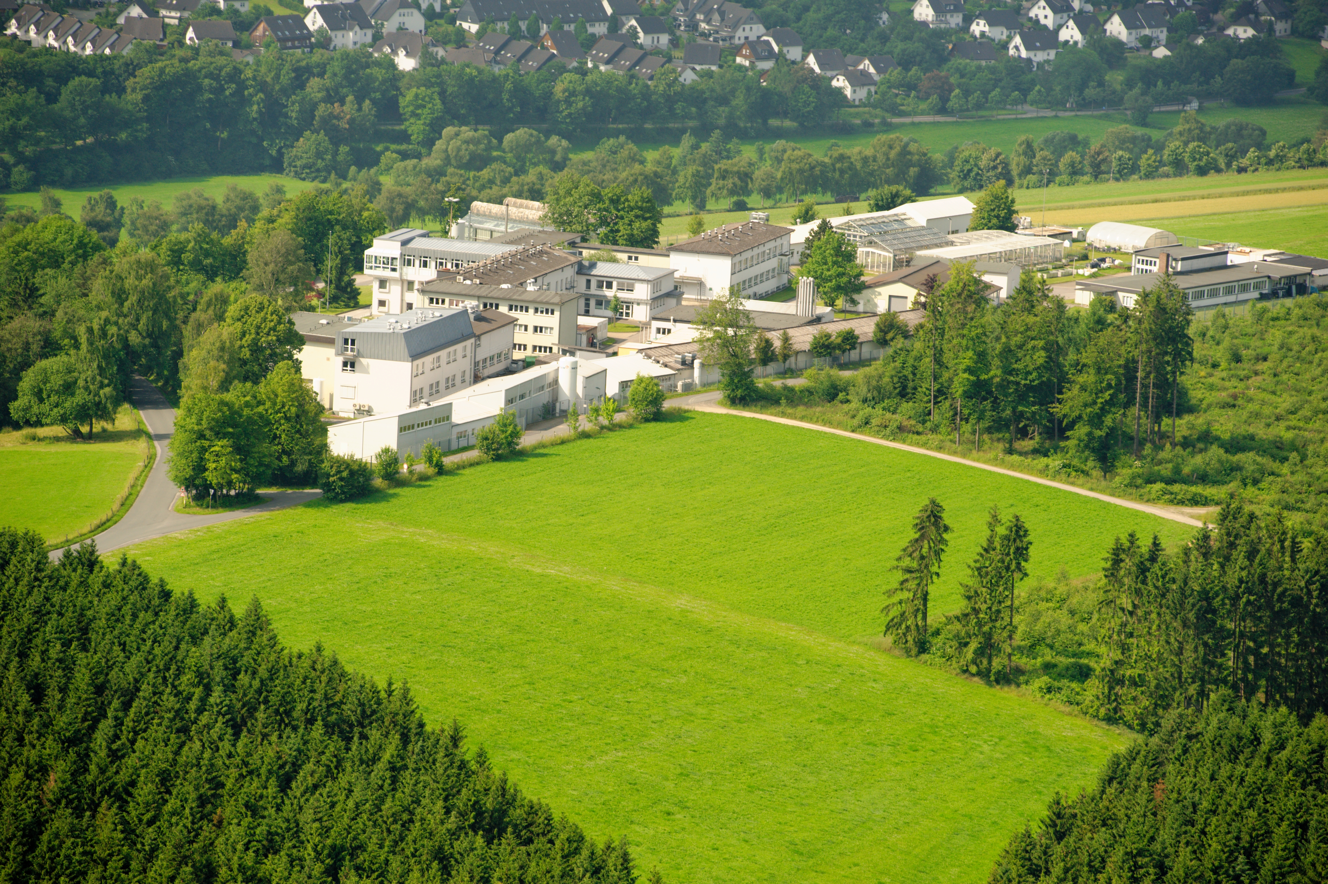 Fotoflug Sauerland-Ost, Schmallenberg-Grafschaft, Fraunhofer-Institut für Molekularbiologie und Angewandte Oekologie The making of this document was supported by the Community-Budget of Wikimedia Germany.